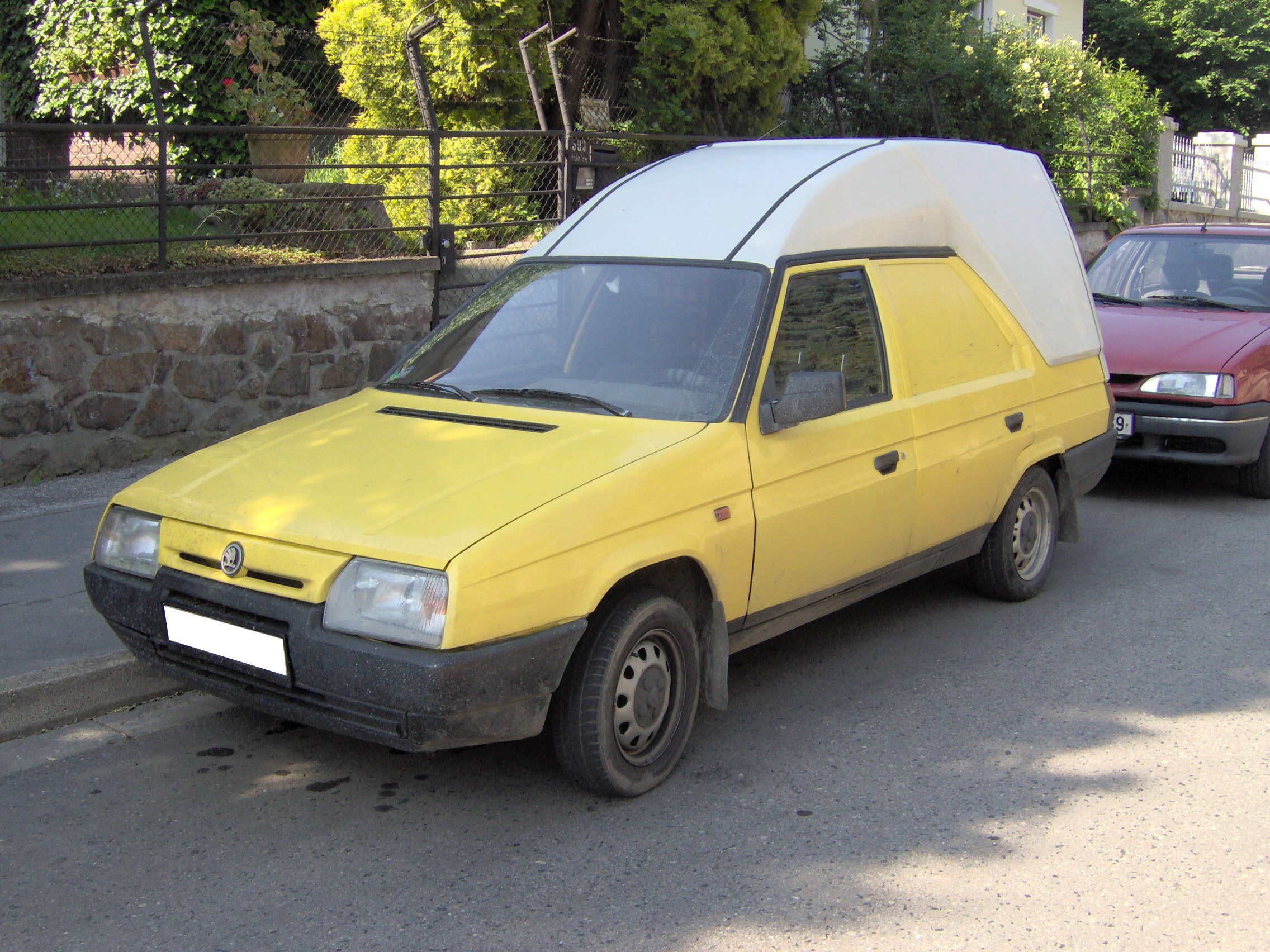 Škoda Forman Plus, Brno, Czech Republic